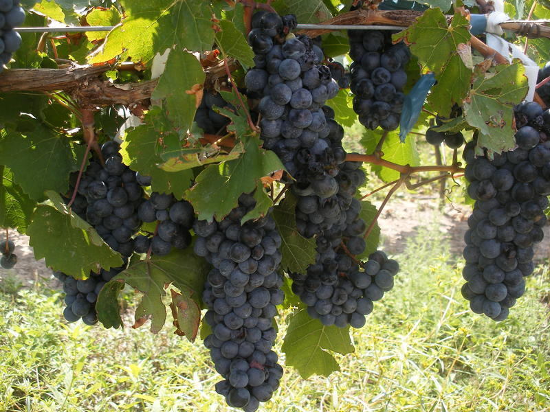 Se han cultivado 30 hectáreas de plantas certificadas donde tanto la genética como la sanidad son excelentes para la obtención de destacados vinos. Nuestras variedades de vinos son: Syrah, Tannat, Bonarda y Tempranillo en cepas tintas y Suavignon Blanc y Pinot Gris en cepas blancas.